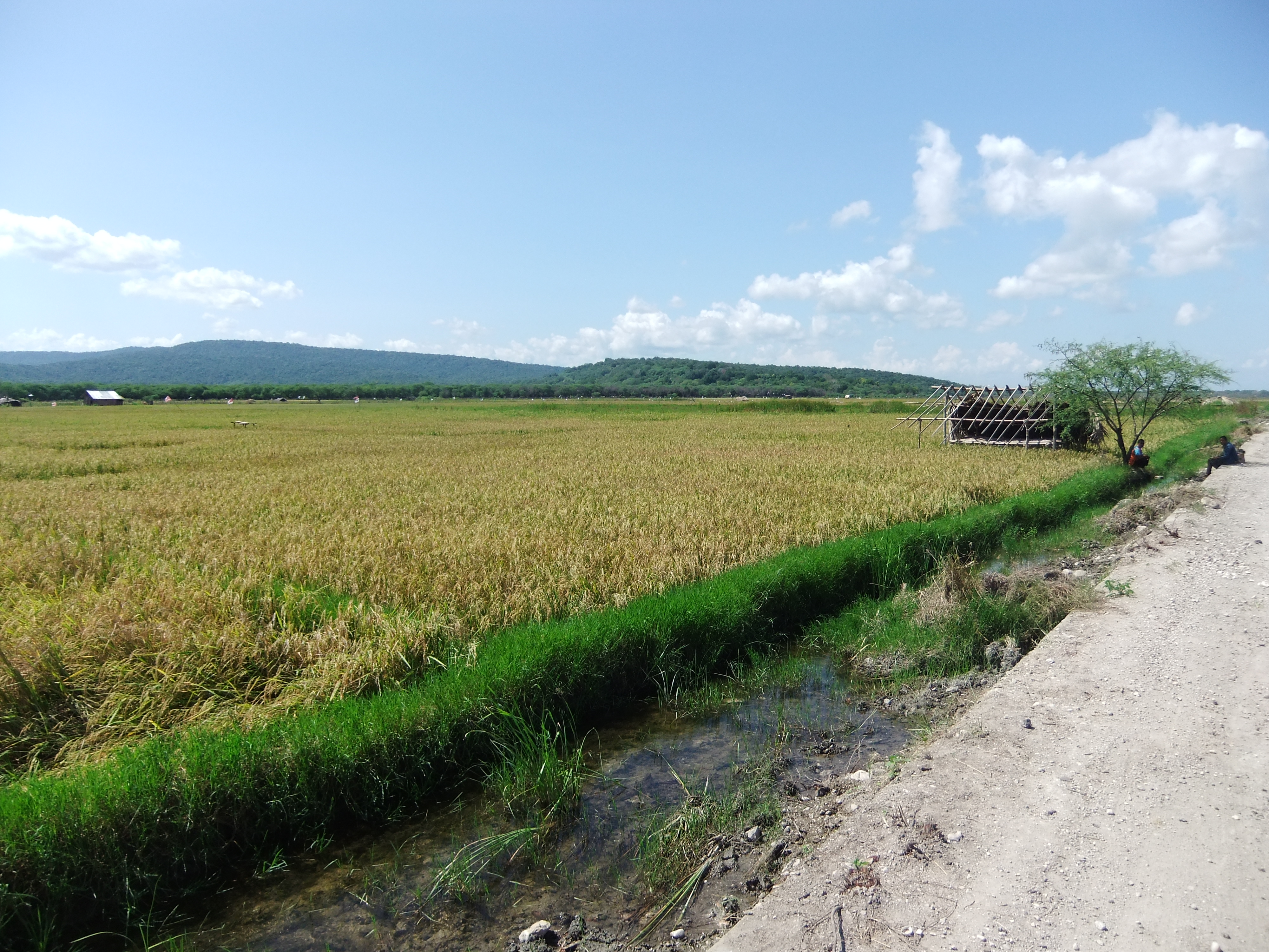 Landscape of South Central Timor (Timor Tengah Selatan), Indonesia